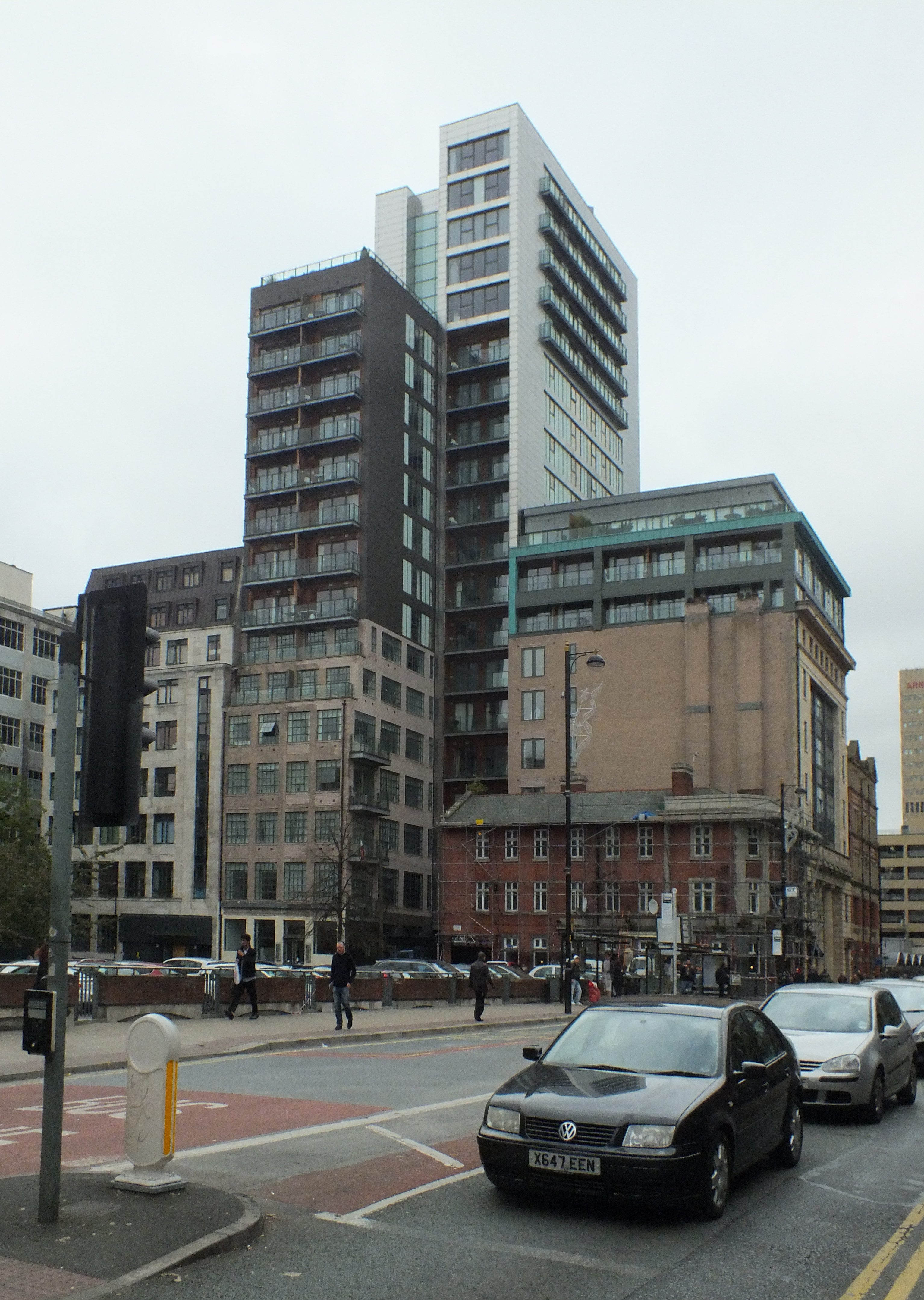 Dale Street, Manchester is included in the city's Norther Quarter and runs parallel and to the north of Piccadilly, and the south of Stevenson Square. The eastern end used to be known as Clowes Street. It merges into Church St. Starting as a residential area, in the 1840s with the advent of the Canal Basin, then in 1865 the London Road Railway Station, the street was transformed into one of warehouses - which were then interspersed with other commercial buildings. In their turn these buildings have found other uses Pall Mall House - known as the Coliseum Shopping Centre